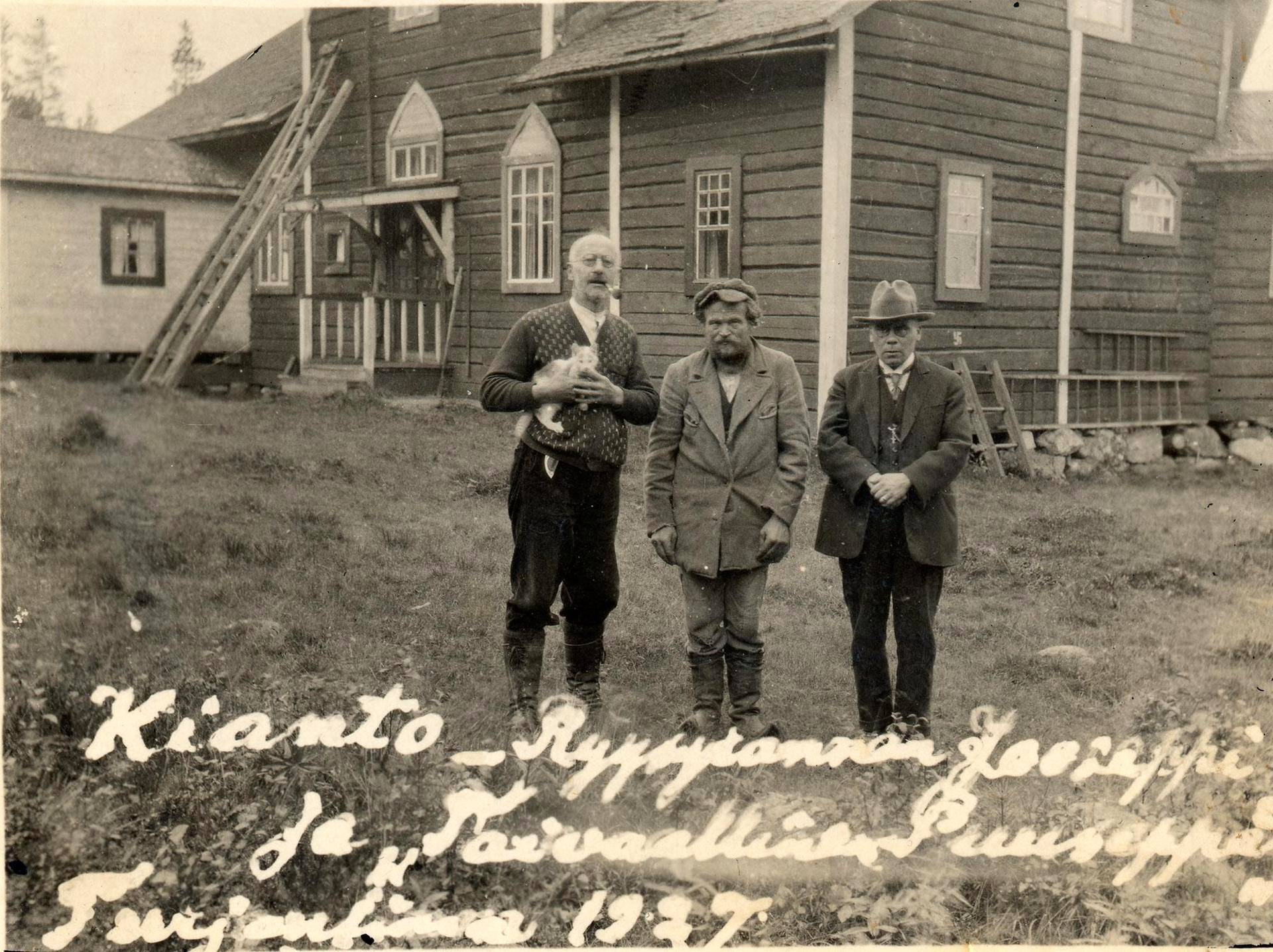 Photograph of the Finnish writer Ilmari Kianto, farmer Jooseppi Kyllönen and priest Arvi Järventaus in front of Kianto’s residence “Turjanlinna”.